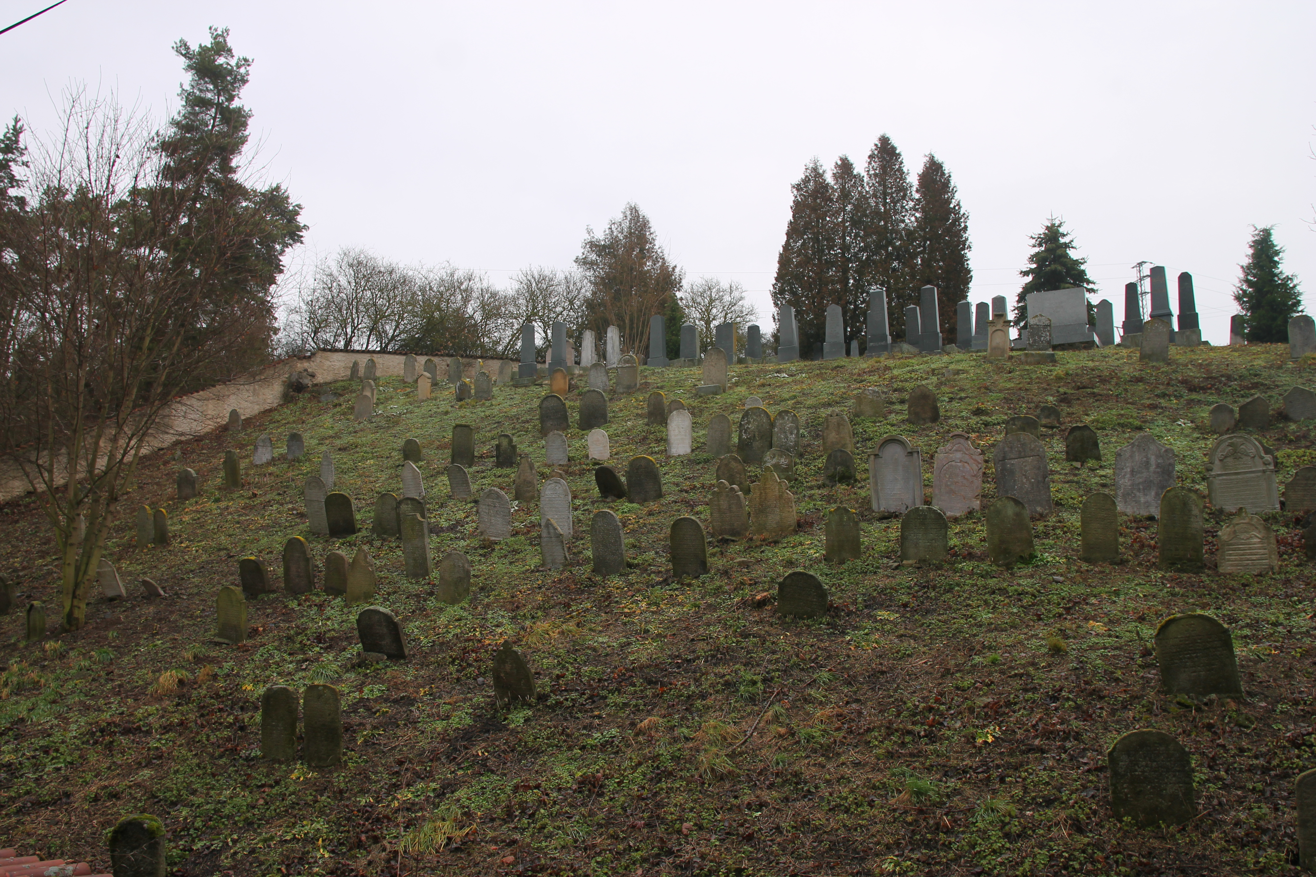 Jewish cemetery in Mirovice